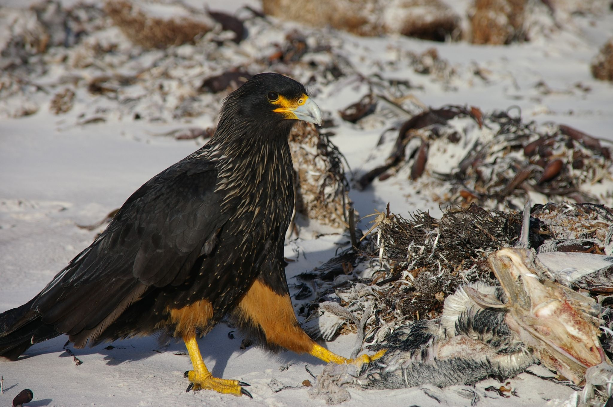 Striated Caracara Phalcoboenus australis, Saunders Island, Falkland Islands